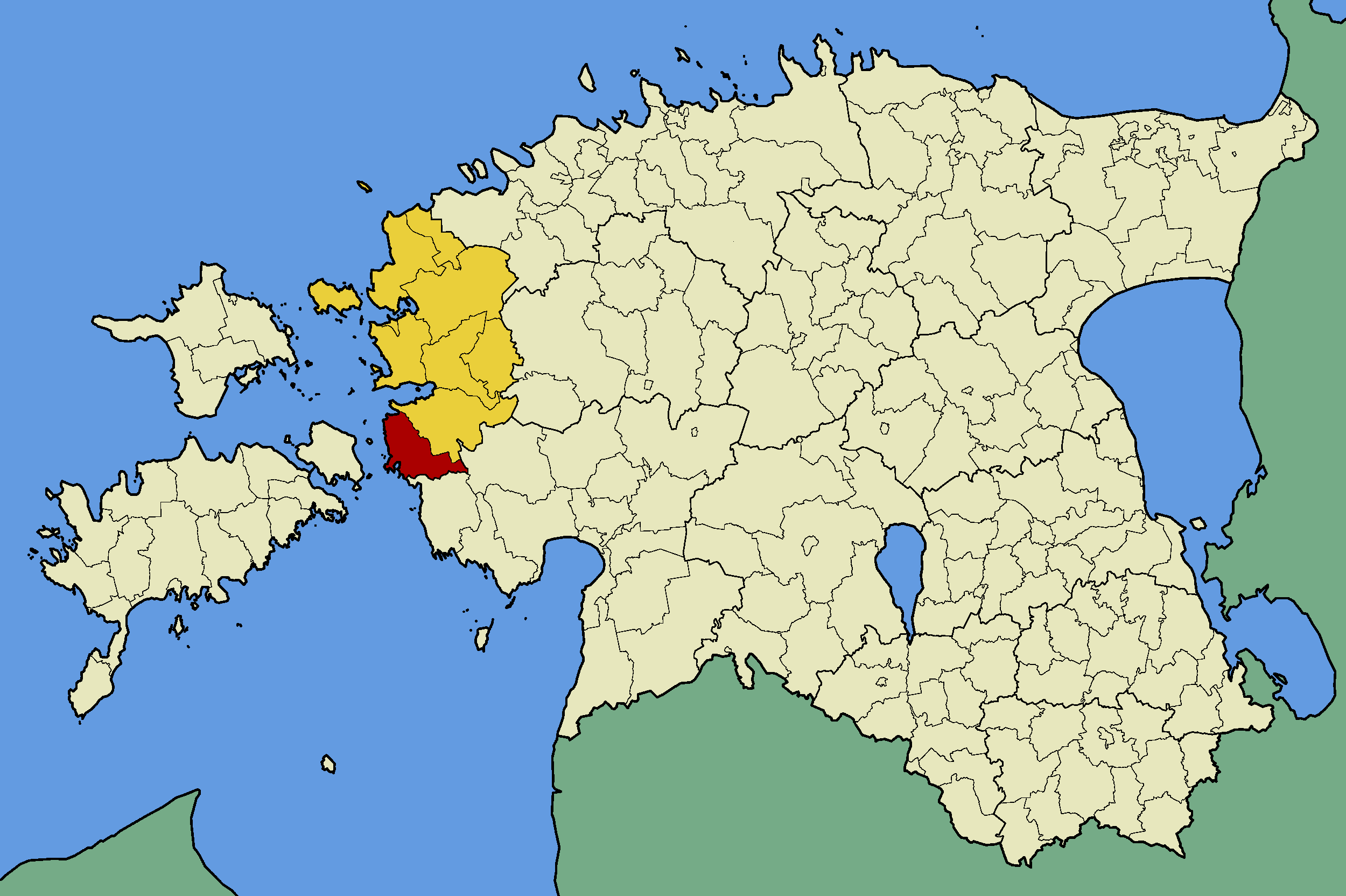 Map of Estonia with borders of municipalities (parishes). Lääne county and Hanila municipality emphasized.